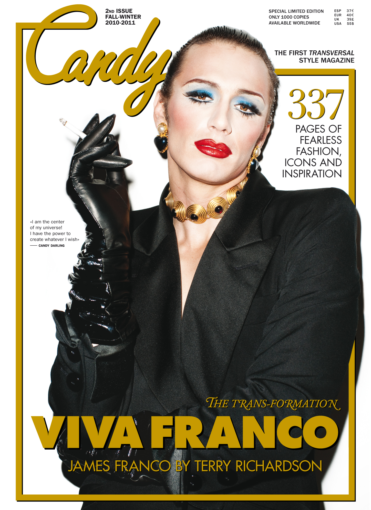 The second issue of issue of Candy shot by Terry Richardson